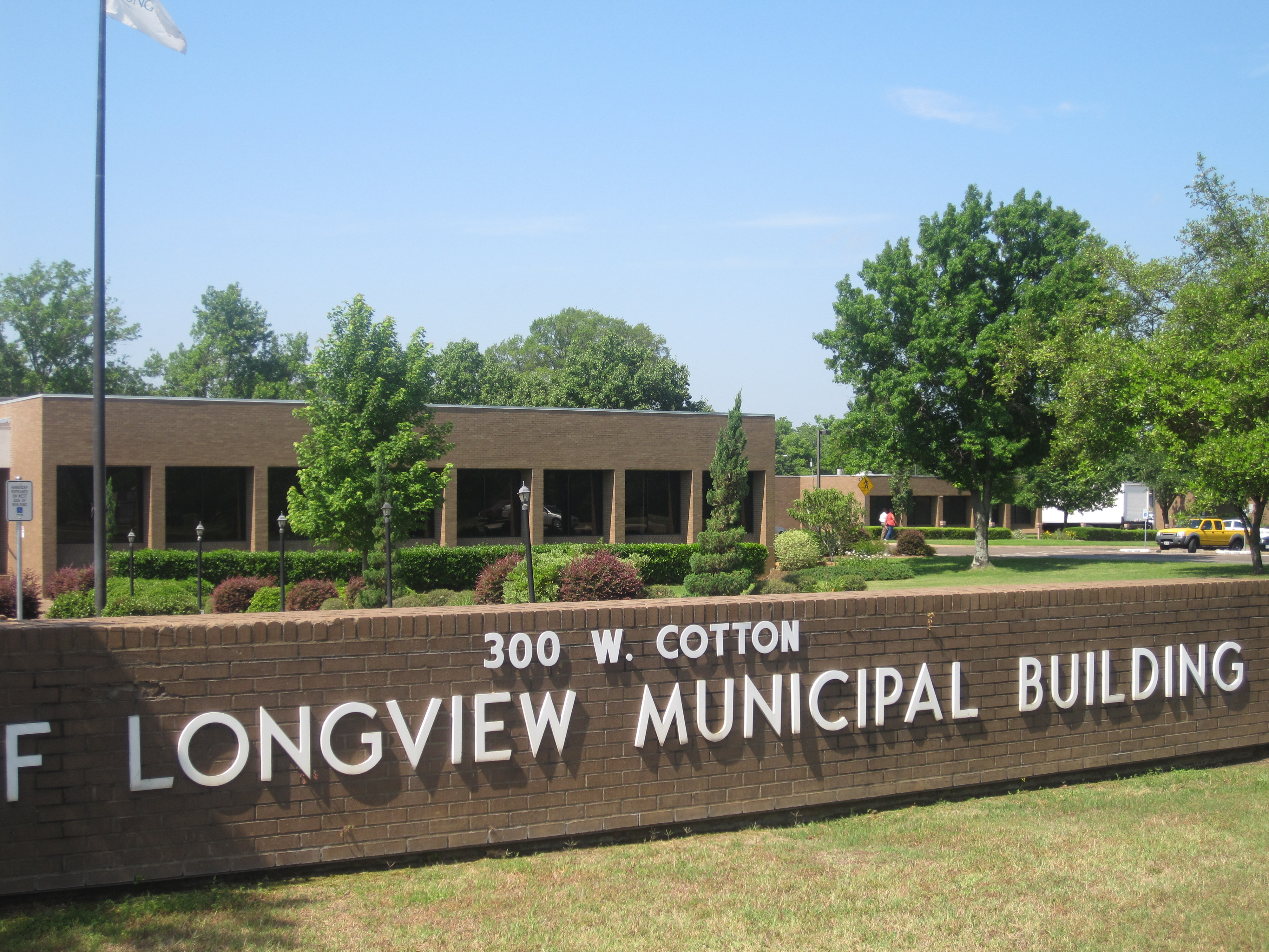 I took photo in Longview, TX.